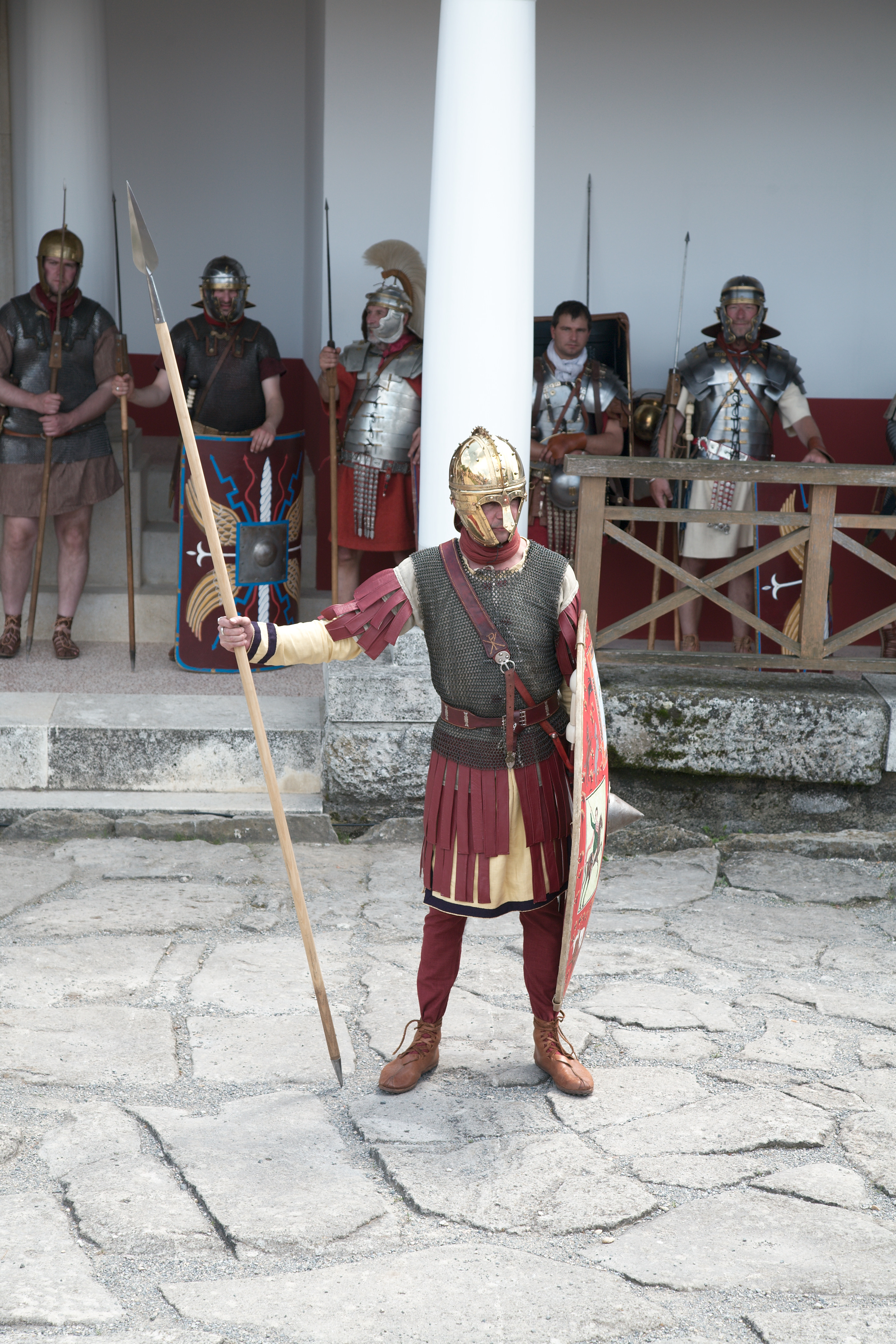 Roman legionaire 4. century. Reenactment of [1]